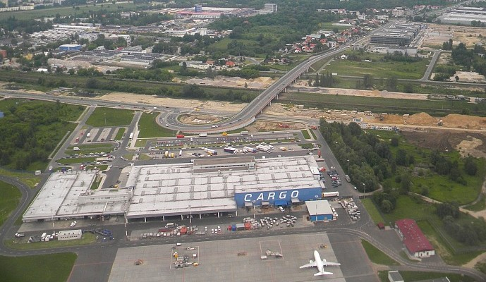 Warsaw Chopin Airport (WAW), aerial view of cargo terminal